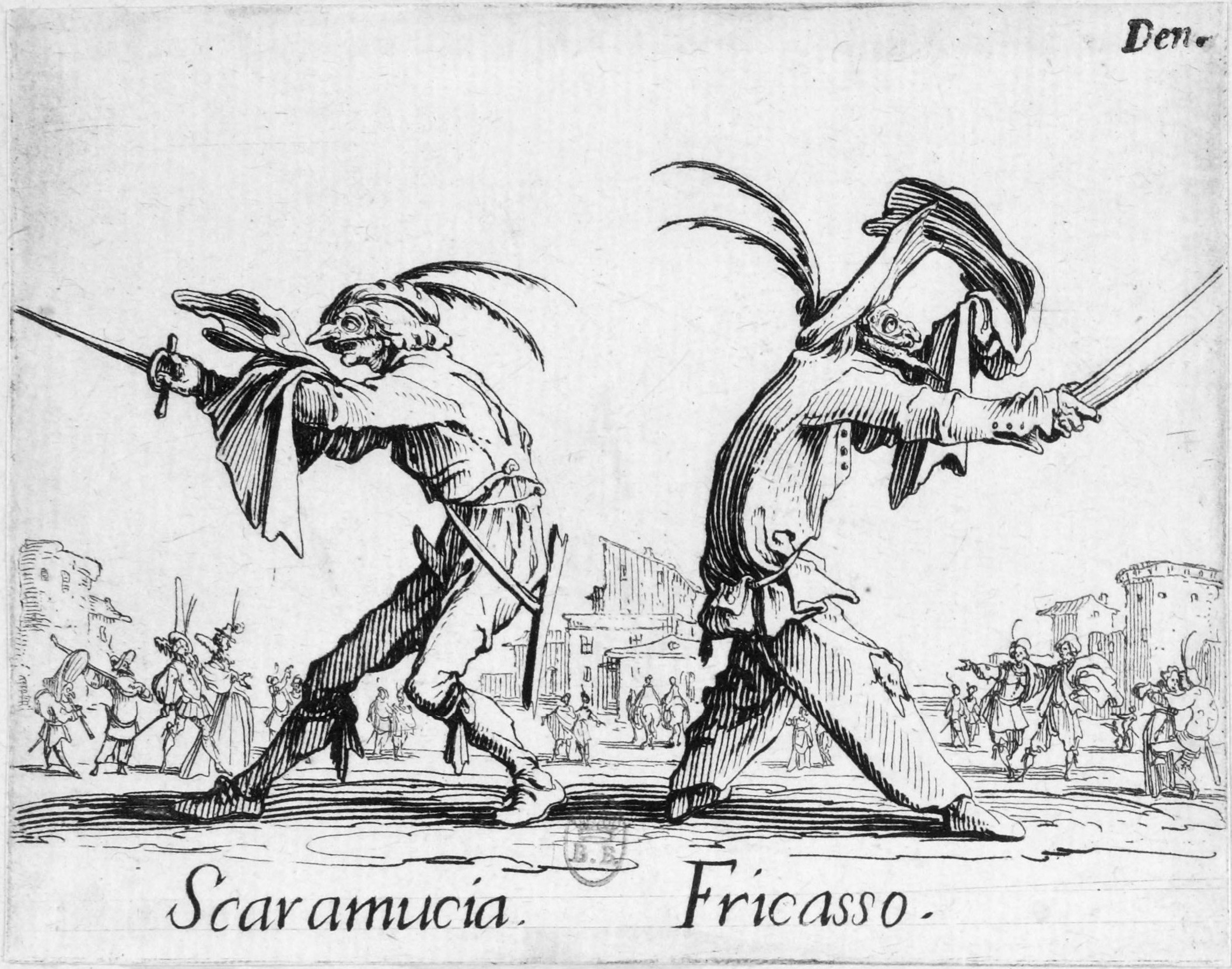 Scaramucia ("Little Skirmisher") and Fricasso ("Big Noise", nom de guerre of Il Capitano), characters of the commedia dell'arte (etching print, 7.2 x 8.1 cm)